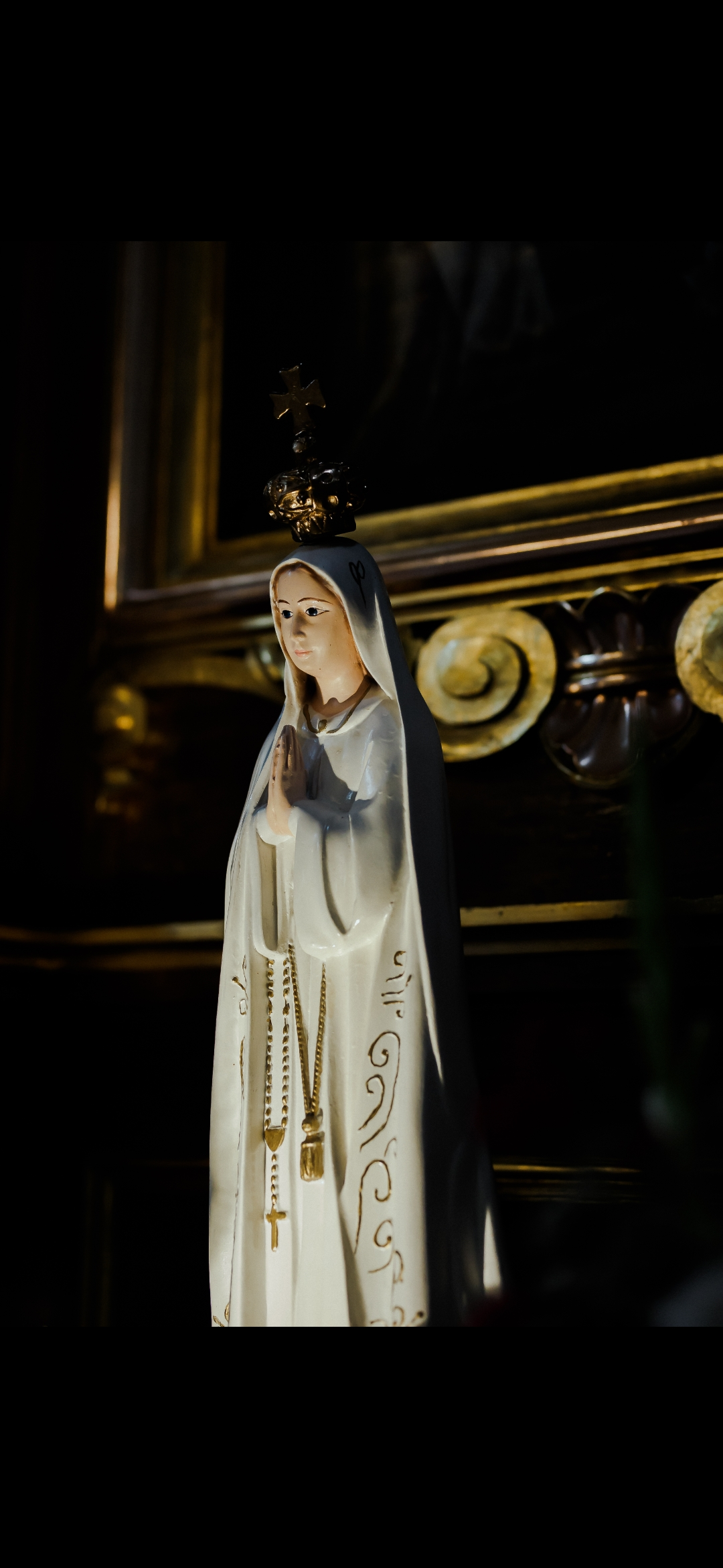 Maria Żółkiewka